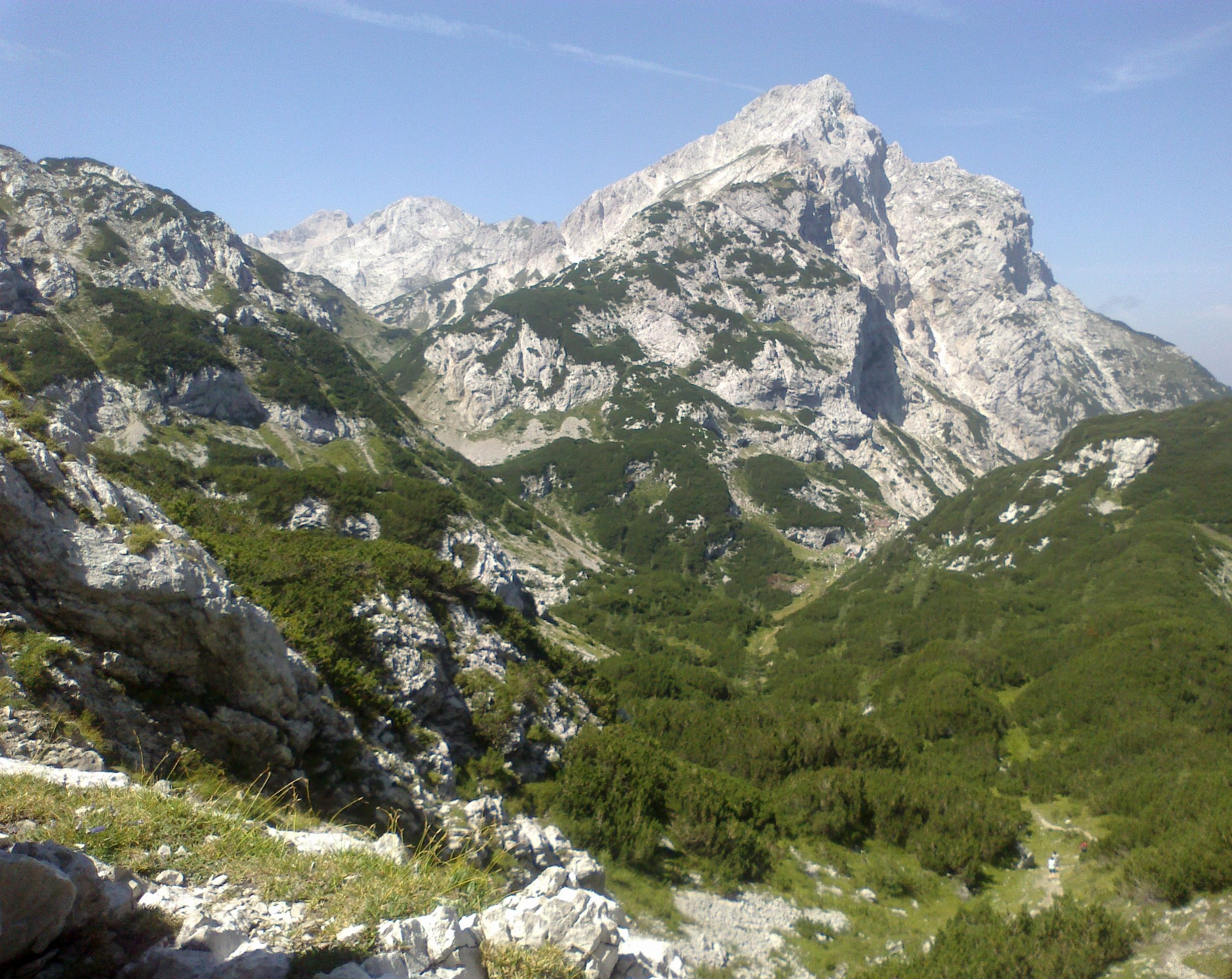 View of Mt. Mala Ojstrica and Molič Mountain Pasture from the south.